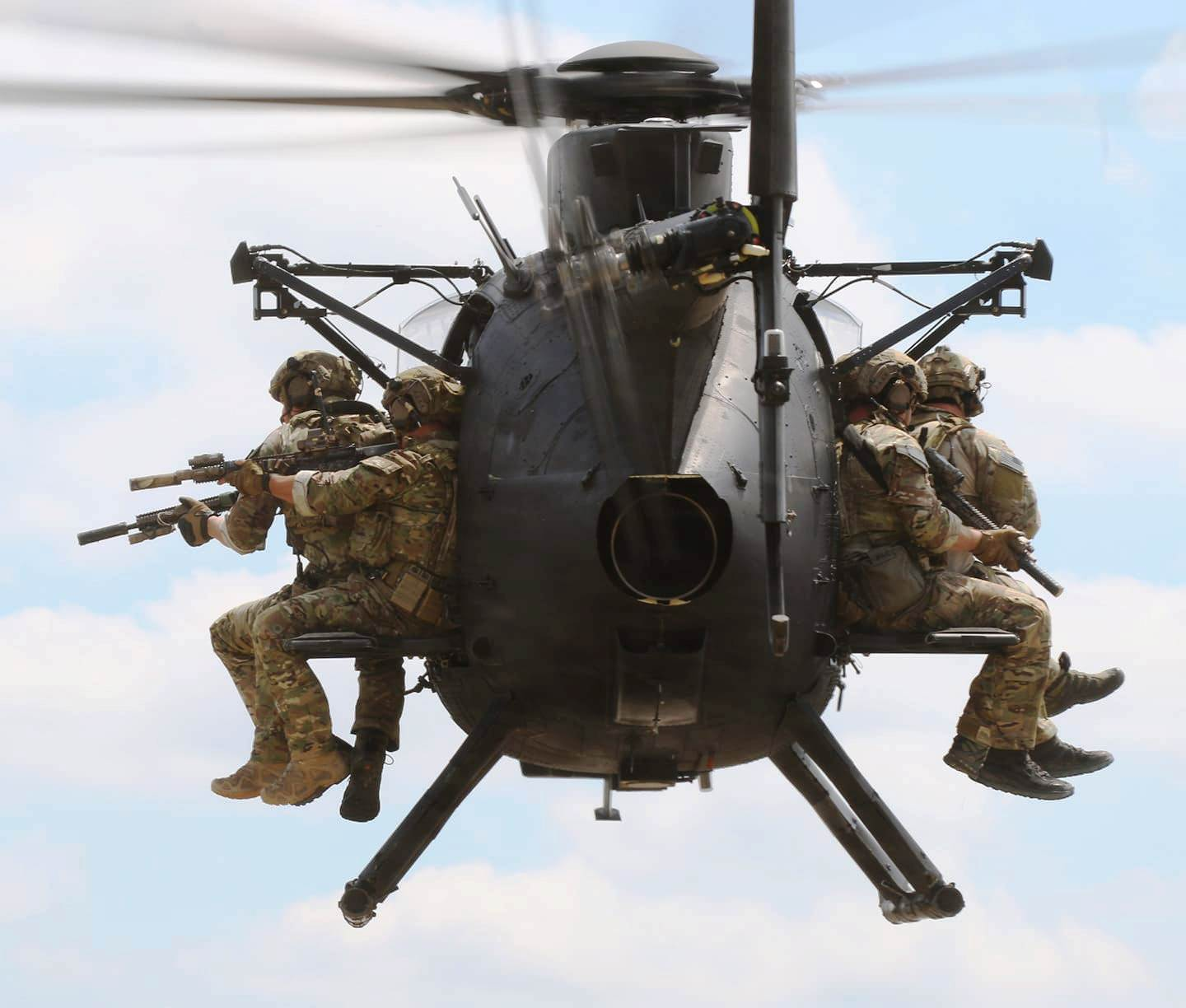 U.S. Army's 160th Special Operations Aviation Regiment MH-6M Little Bird transports Rangers from the 1st Ranger Battalion during a rapid deployment capabilities exercise